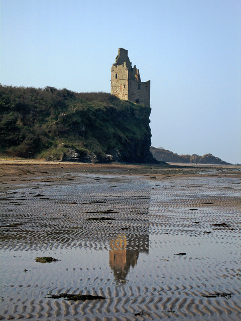 Greenan Shore and Castle